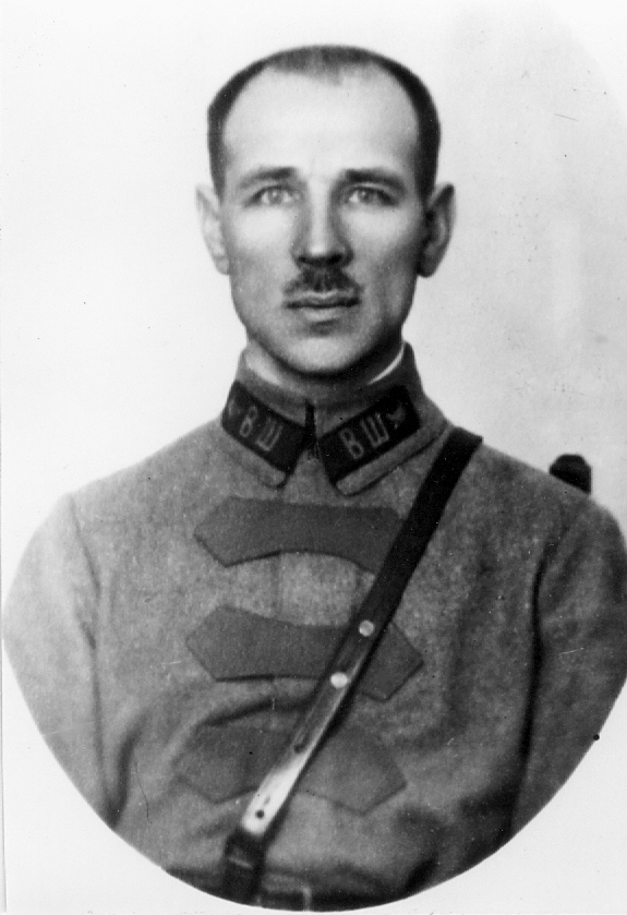 Фотография командарма Матиясевича Михаила Степановича